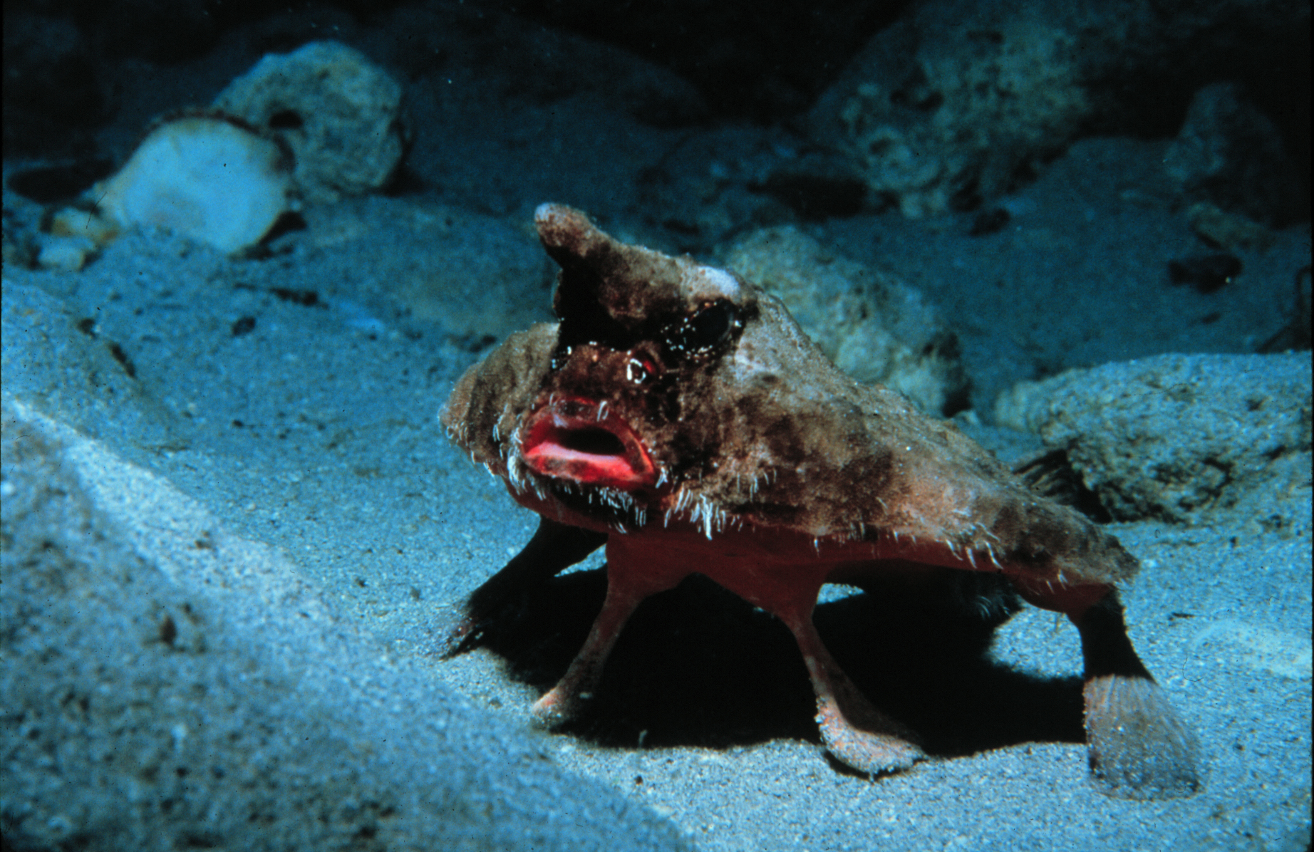 Ogcocephalus parvusal Undersearch Research Program (NURP) Colle